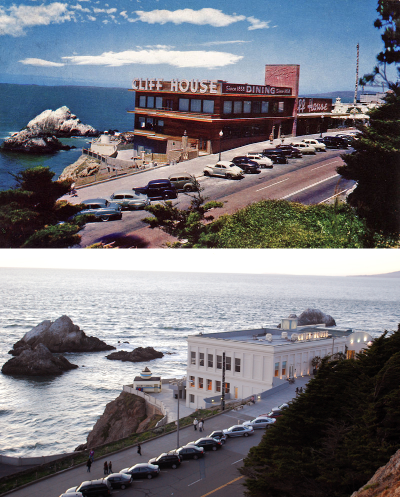 Top: Cliff House 1951. Bottom: Cliff House 2009